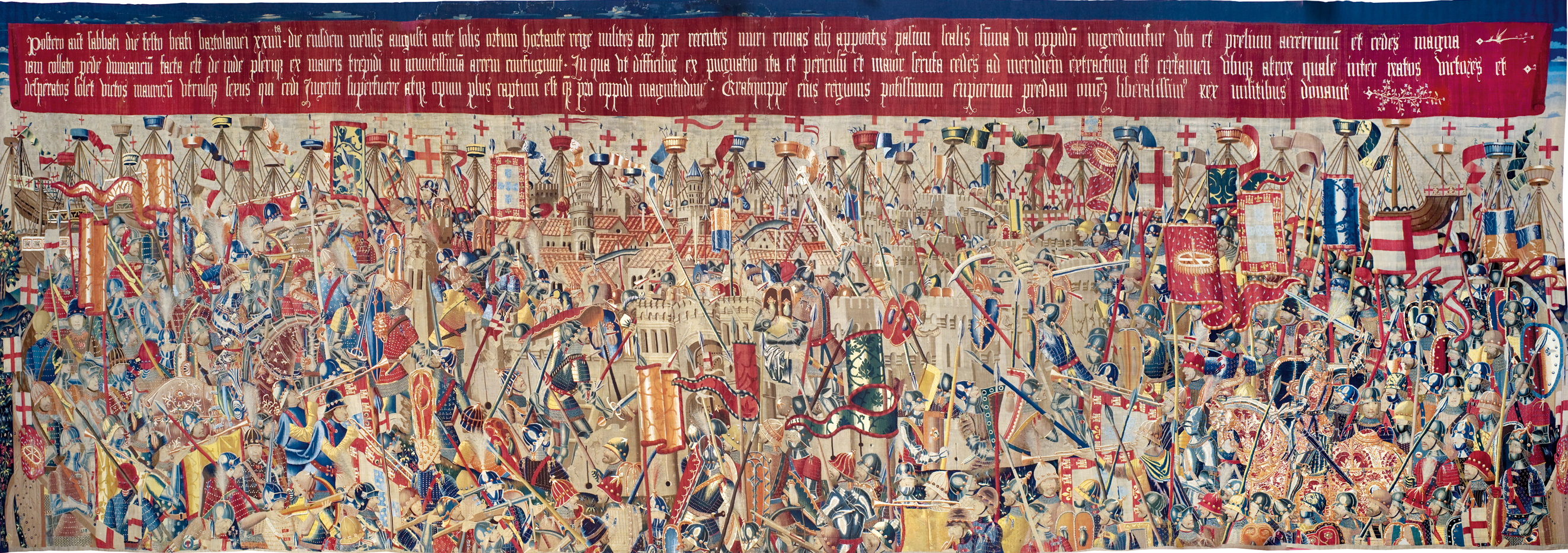 Assault on Asilah, from the Pastrana series of tapestries